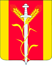 Coat of arms of Krasnoarmeiskoye municipality, Yeisk raion, Krasnodar krai, Russia.